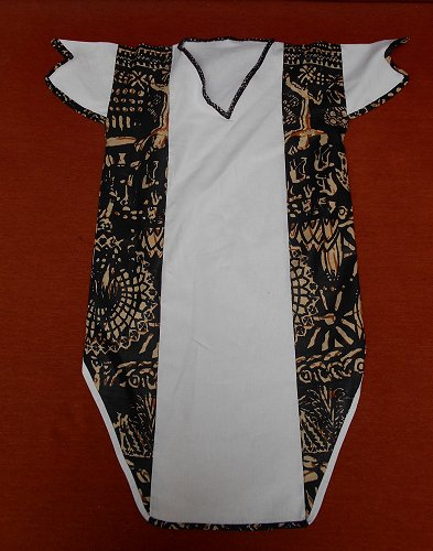 I was inspired by the oriental tradition and particularly the Berber for brought an African touch by incorporating the symbol of the free man to show the complementarity This is an image of Cultural Fashion or Adornment from Morocco